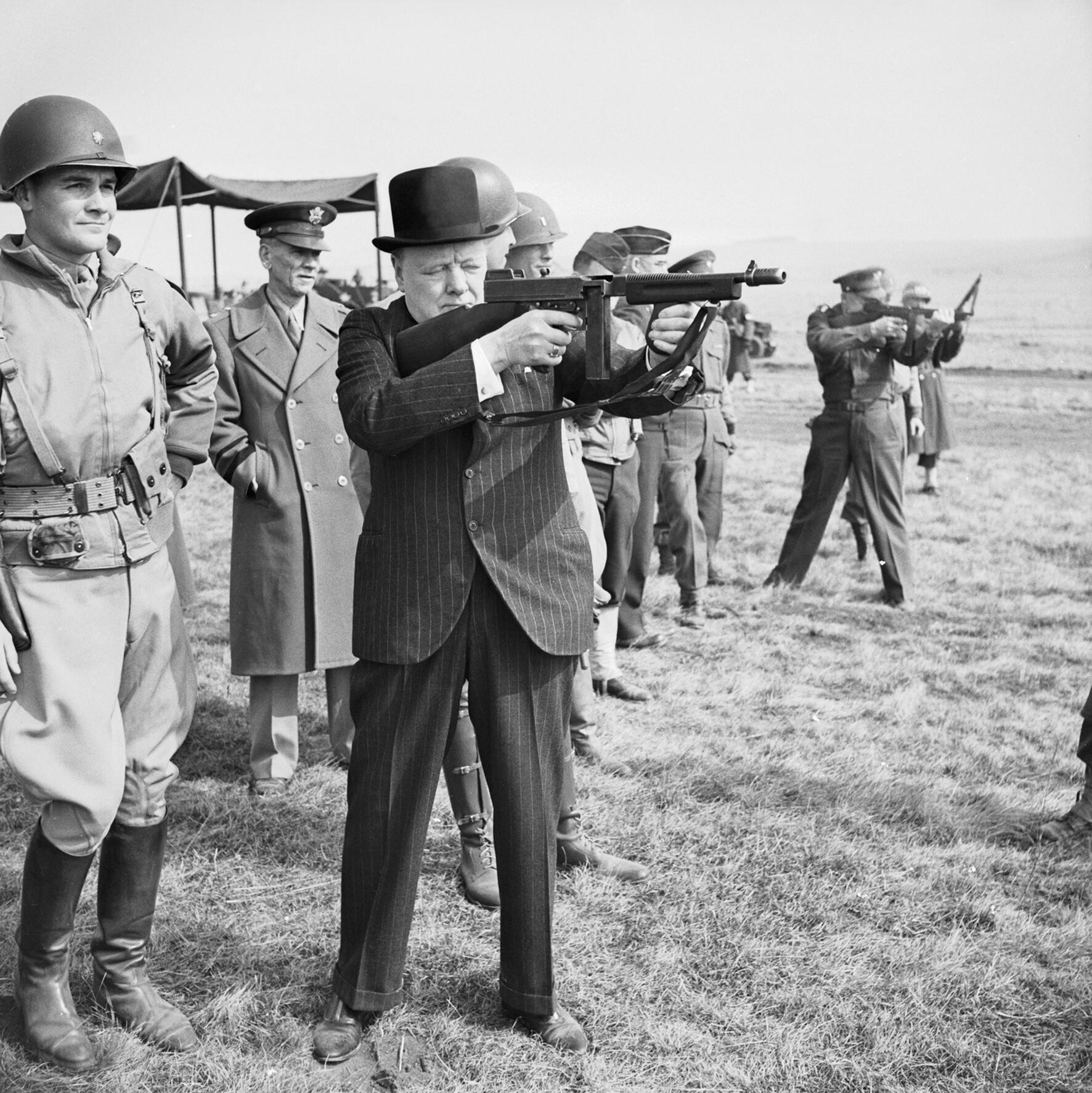 Winston Churchill fires a Thompson submachine gun alongside the Allied Supreme Commander, General Dwight D Eisenhower, during an inspection of US invasion forces, March 1944. The Prime Minister Winston Churchill fires a Thompson 'Tommy' submachine gun alongside Supreme Allied Commander of the Allied Expeditionary Force General Dwight D Eisenhower as American soldiers look on in southern England in late March 1944.